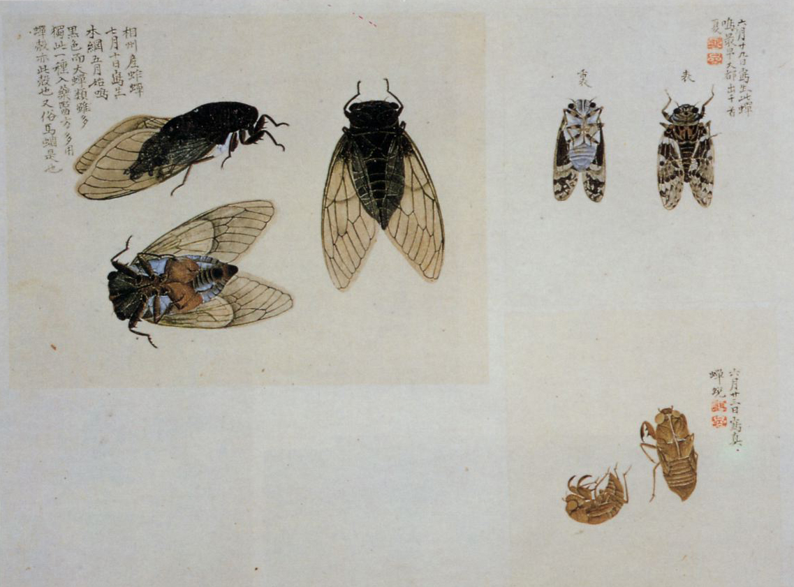 The insect quire(summer_version) 虫豸帖（夏帖）